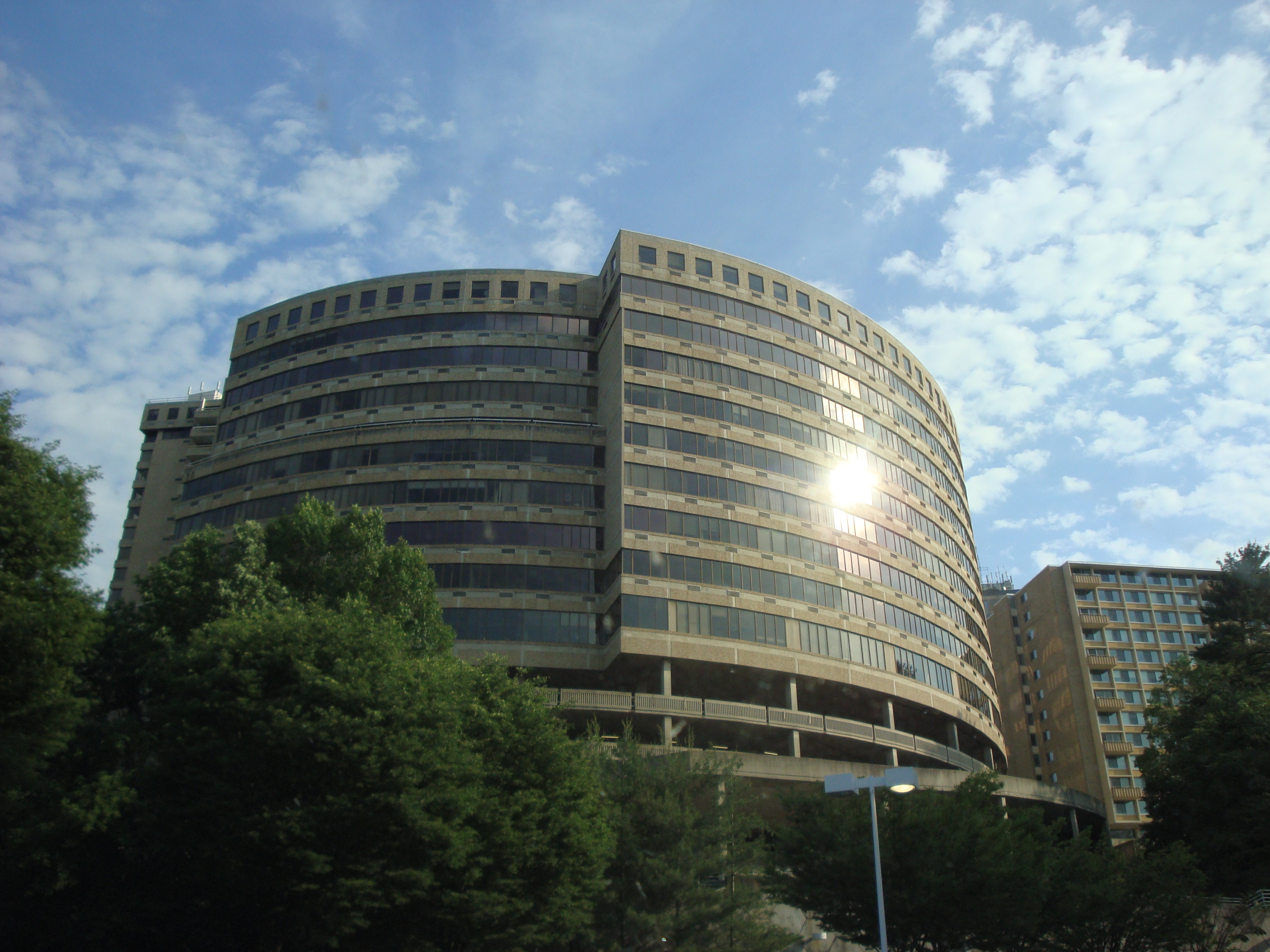 Hampton Plaza, Towson, Maryland.